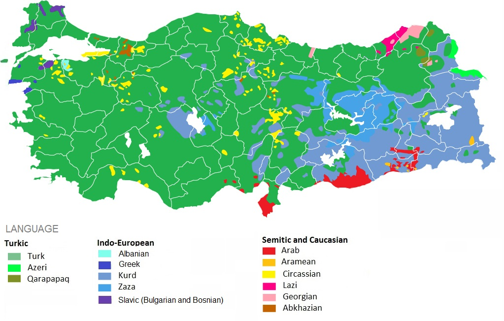 Distribution of linguistic groups in Turkey based on maps of Columbia University in New York.